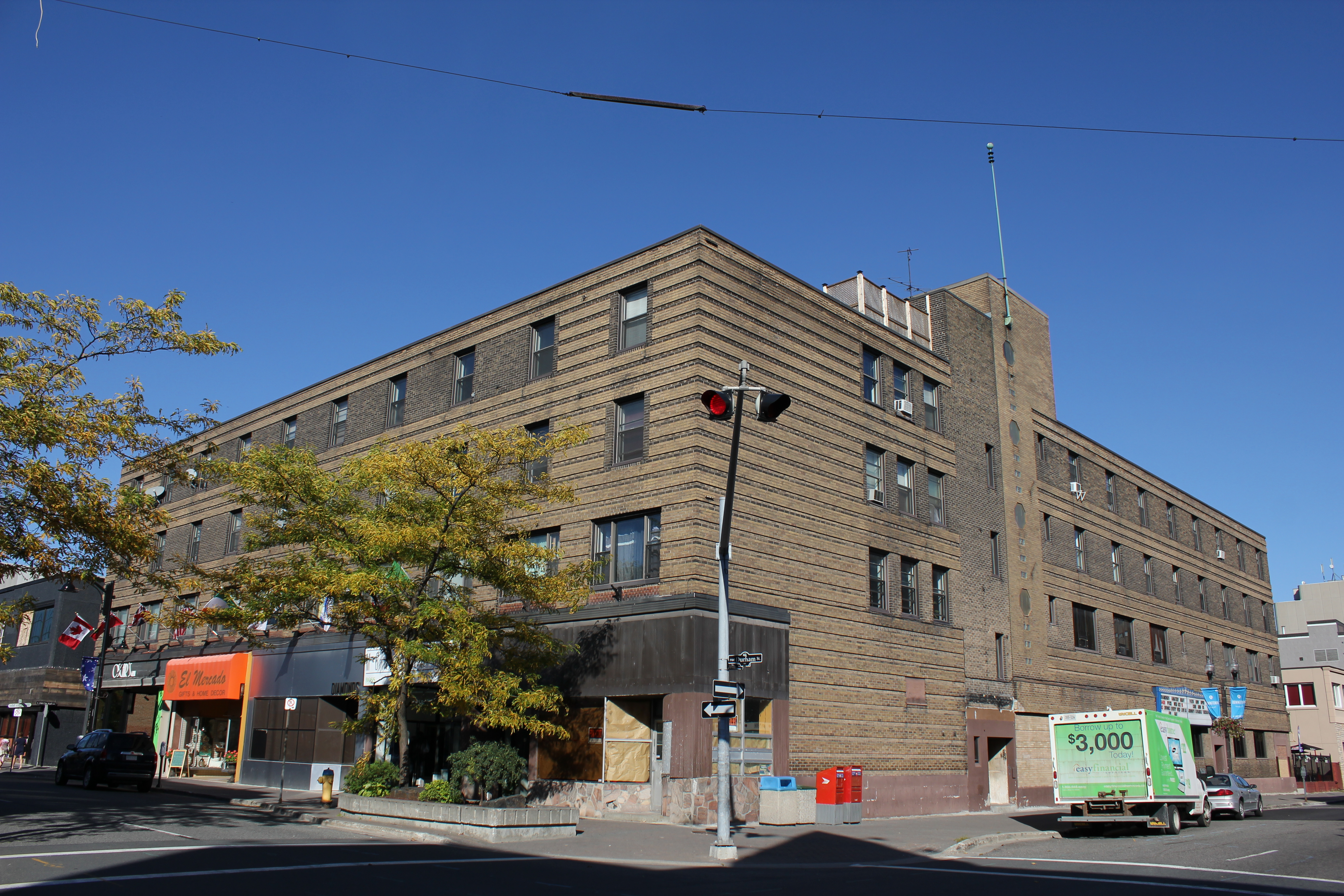 The Coulson Hotel (built 1938) in Sudbury, Ontario (Canada) 86 Durham Street Art Deco style